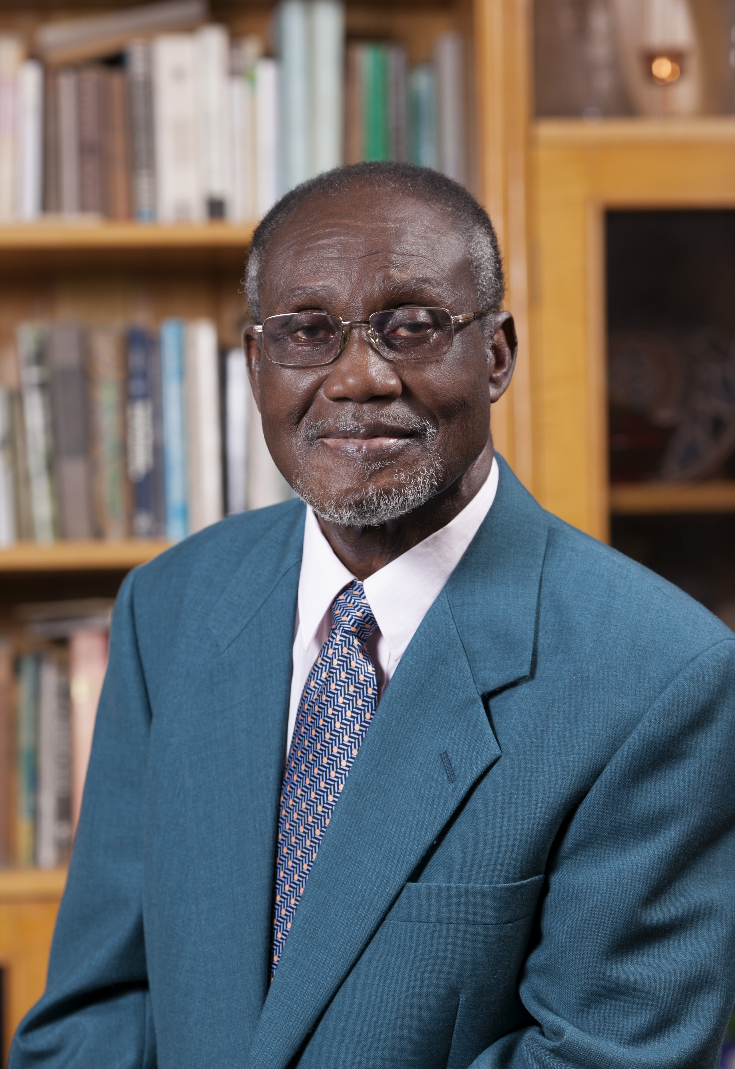 Picture of Dr. Obed Yao Asamoah